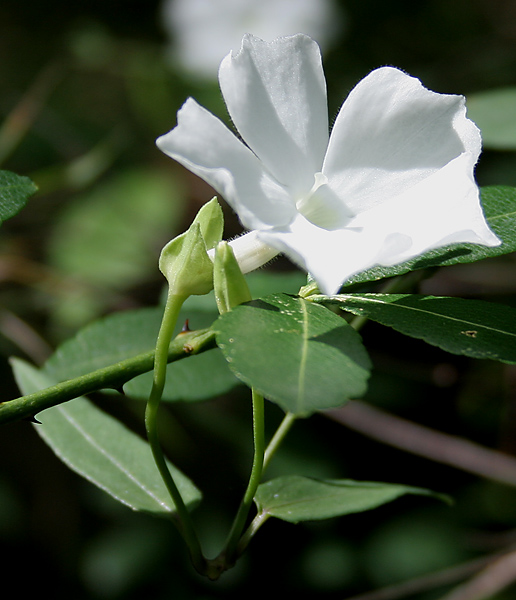 Chimine Thunbergia fragrans in Talakona forest, in Chittoor District of Andhra Pradesh, India.